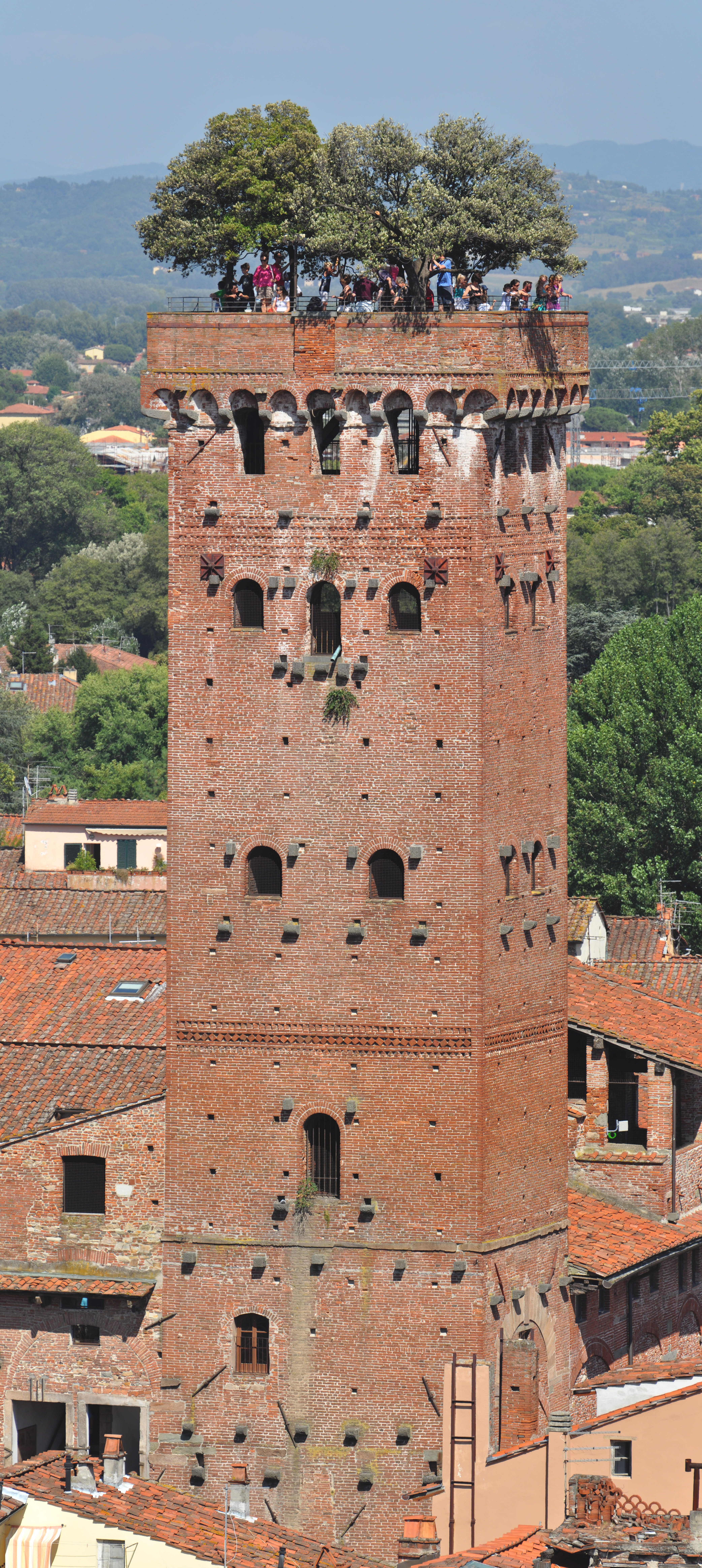 View of Guinigi Tower from Torre dell'Orologio